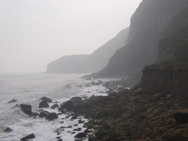 The coast at Ravenscar, North Yorkshire